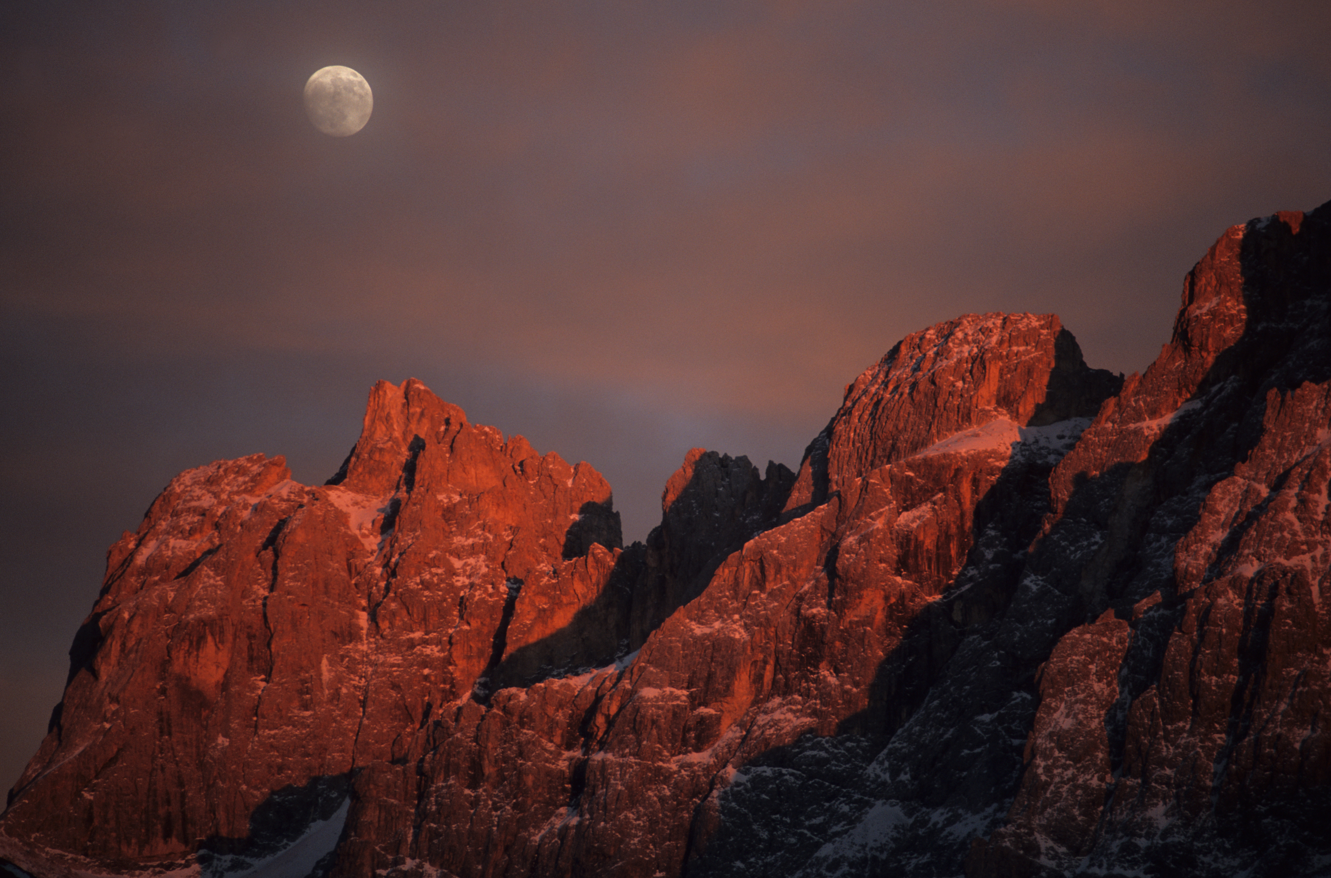 Pale di San Martino (Trentino, Italy): sunset with moon view from Passo Rolle.